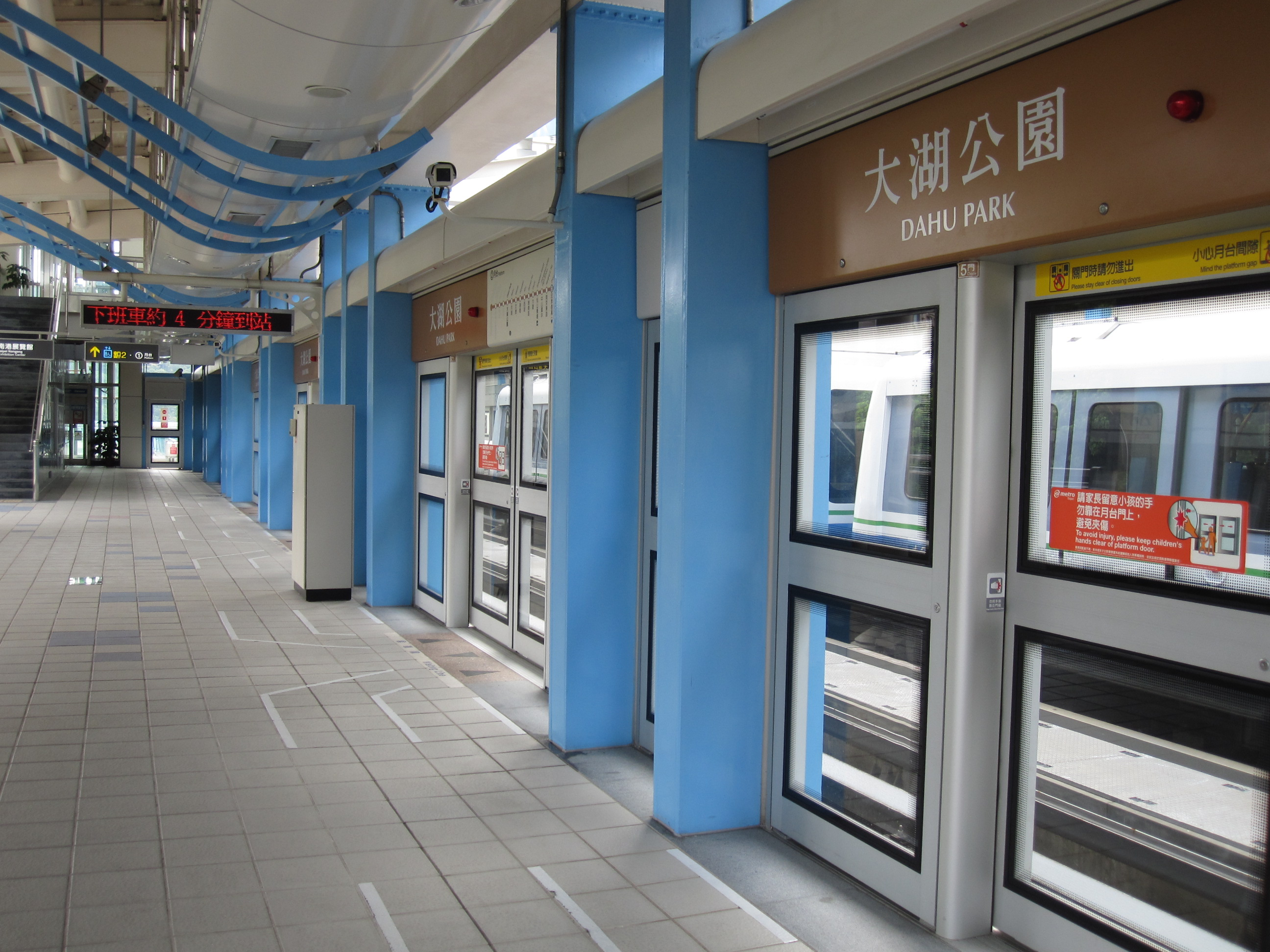 Dahu Park Station Platform 2.